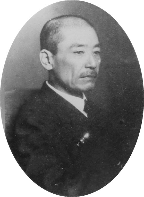 Yoshinaga Ōshima, former director of the Tokyo Academy of Music.